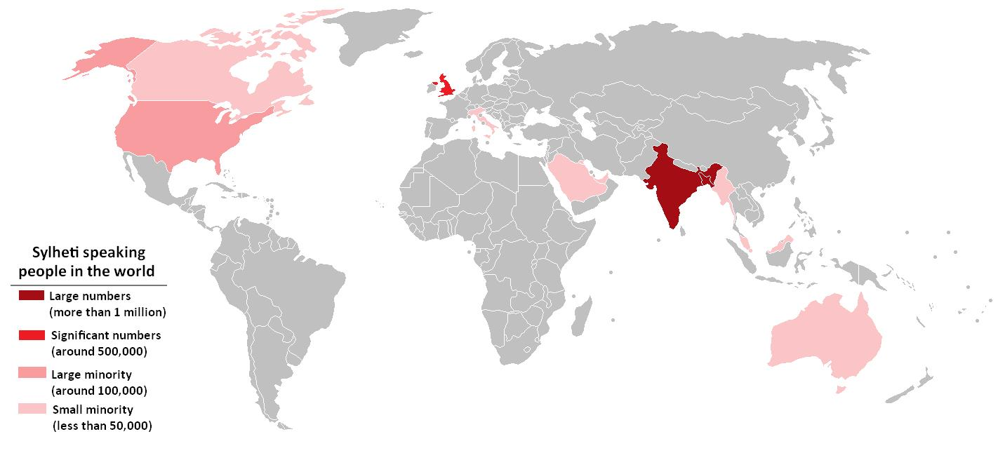 the Sylheti speaking people around the world